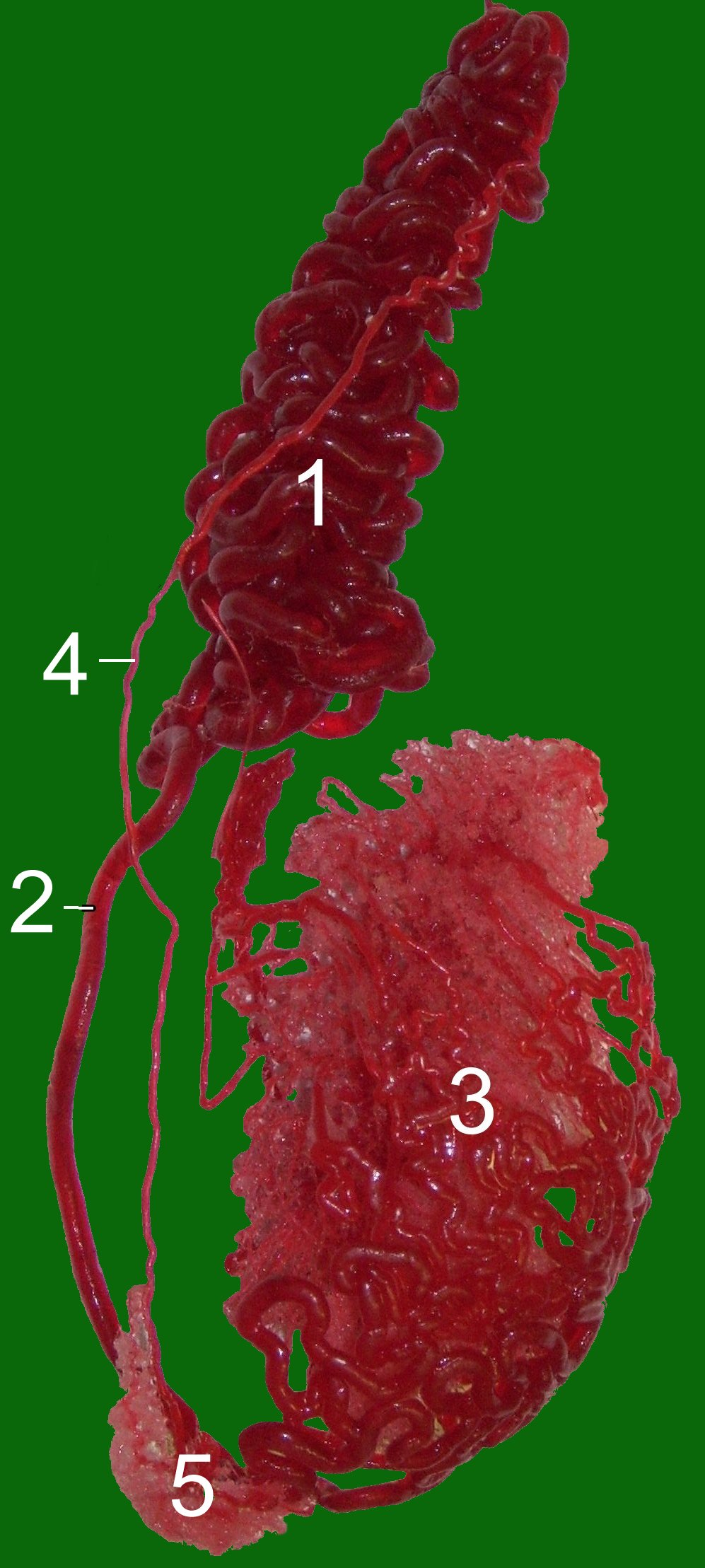 Testicular artery of a bull (steer). 1 convolut of testicular artery, 2 testicular artery, 3 vascular bed of the testicle, 4 epididymal artery 5 vascular bed of the epididymal tail Hodenarterie eines Bullen. 1 Konvolut der Hodenarterie, 2 Hodenarterie, 3 Gefäßbett des Hodens, 4 Nebenhodenarterie 5 Gefäßbett des Nebenhodenschwanzes